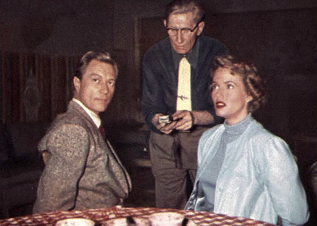 Photo of Richard Denning and Barbra Britton on the set of the television show Mr. and Mrs. North.